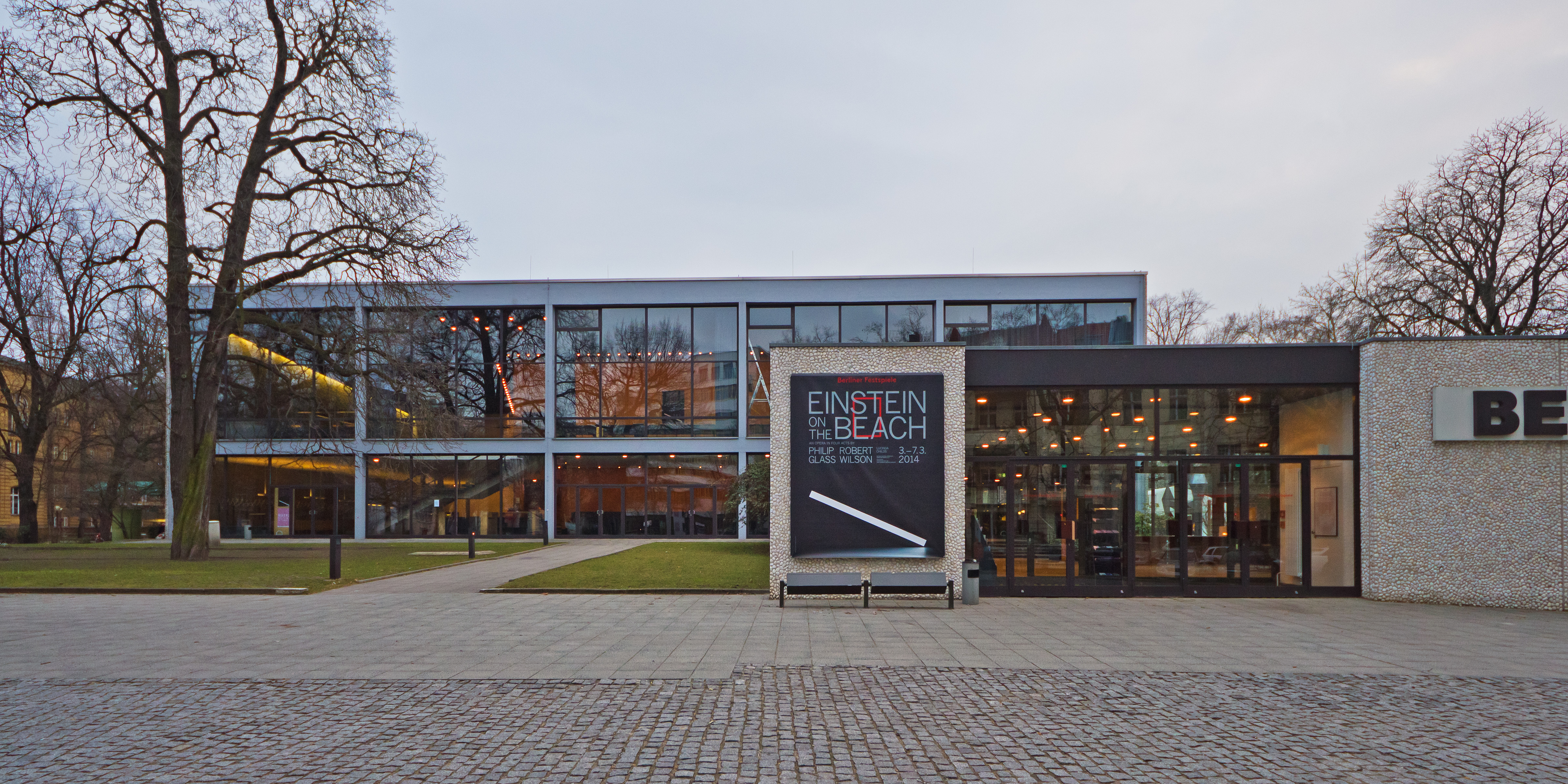 The «House of Festivals» in Berlin-Wilmersdorf, Germany